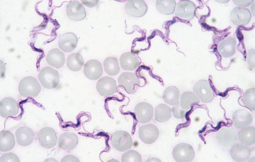 Trypanosoma evansi protozoa